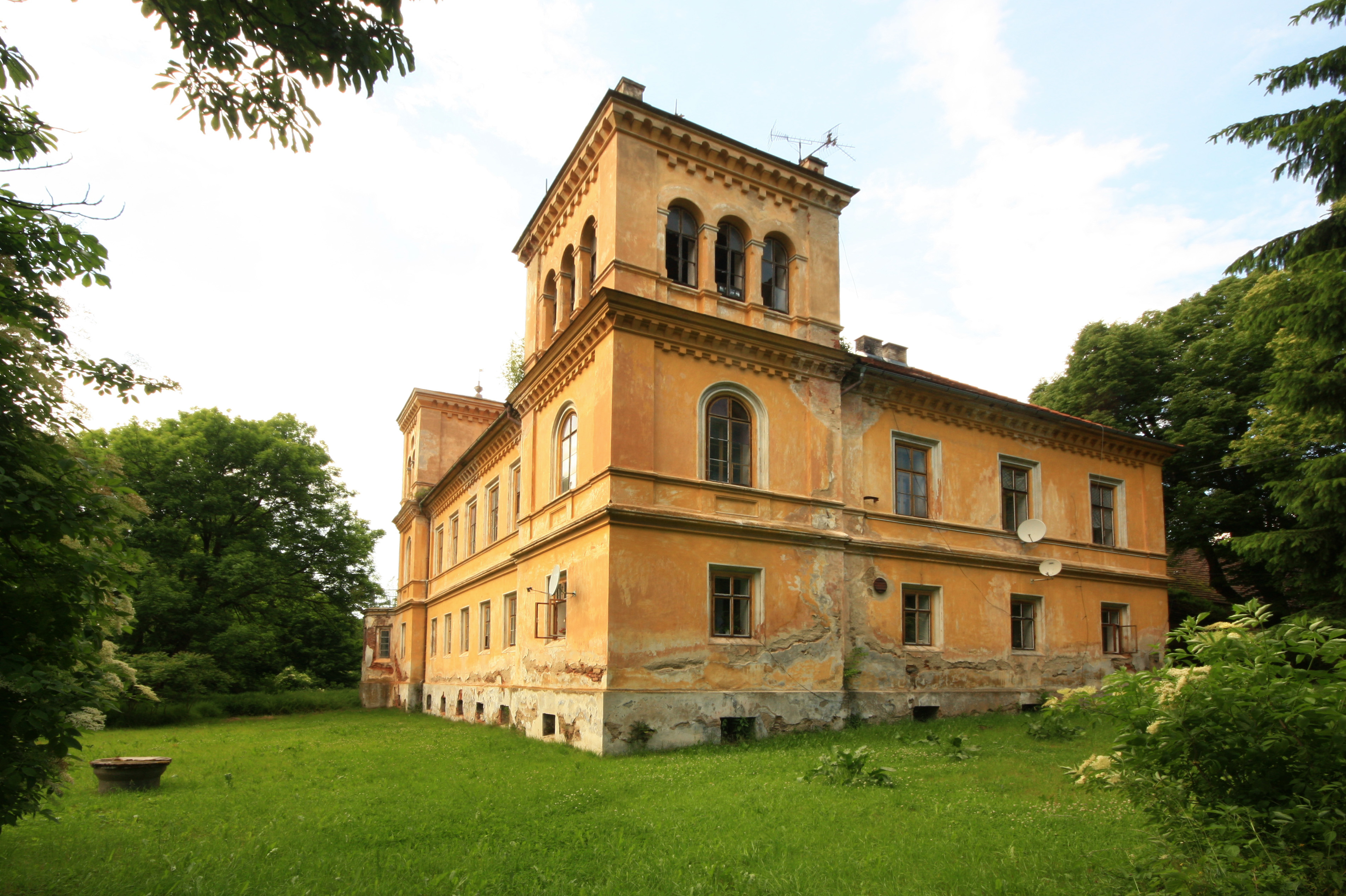 Castle in Nový Čestín, part of Mochtín, Czech Republic